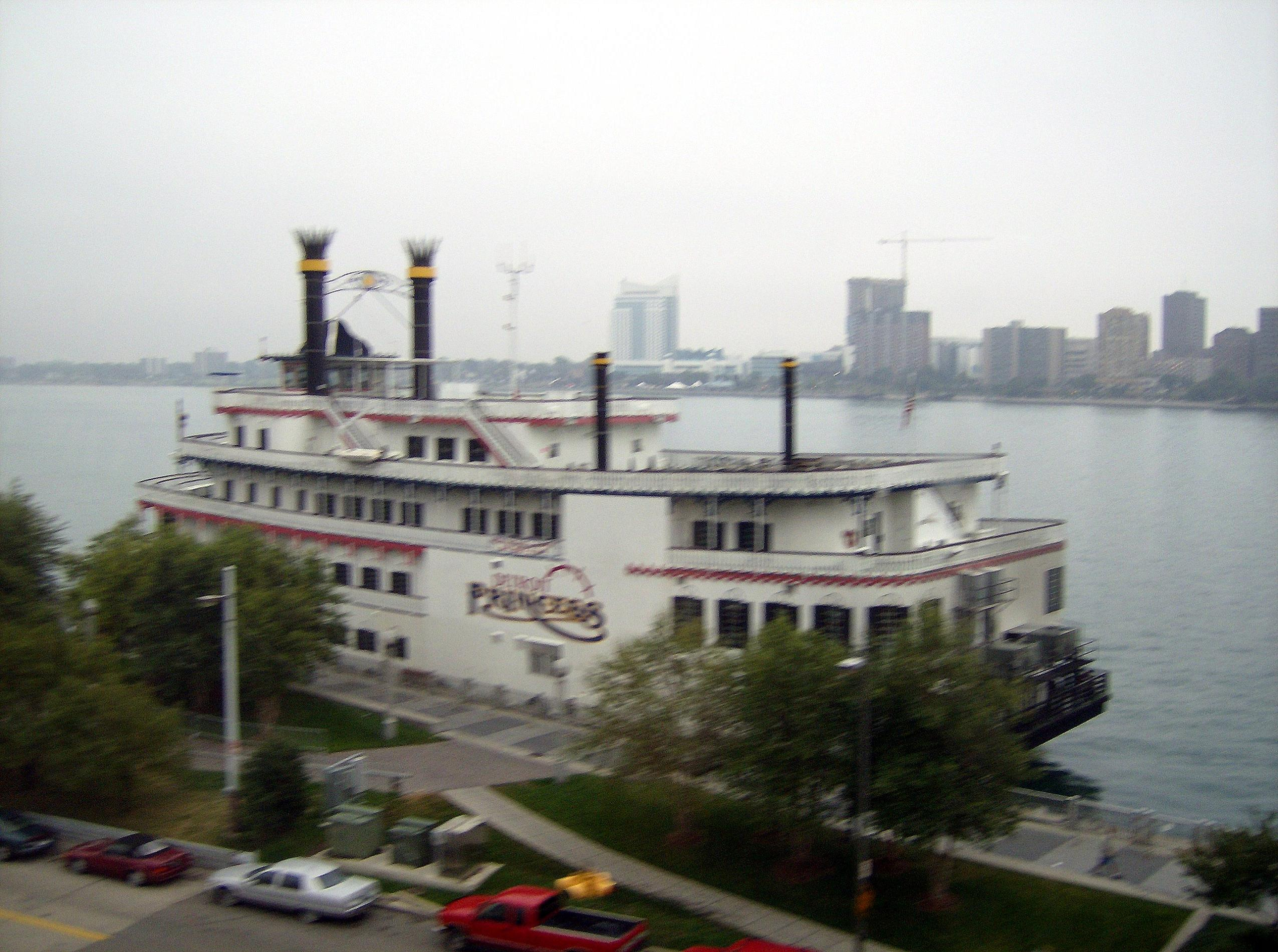 Detroit Riverfront dock looking toward Windsor, ON.